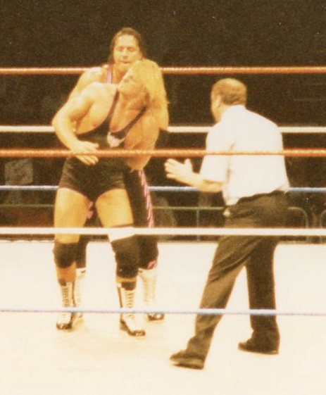 Brothers Bret (behind) and Owen (in front) Hart wrestling each other.